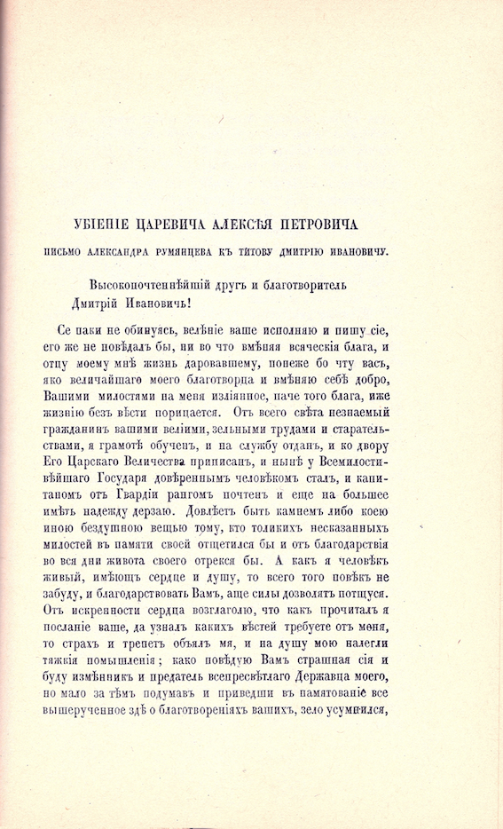 "Letter from Alexander Rumjantsev to Dmitriy Titov". First puplication in "Polar Star" (1858, Free Russian Press)